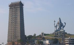 Photo taken by author himself